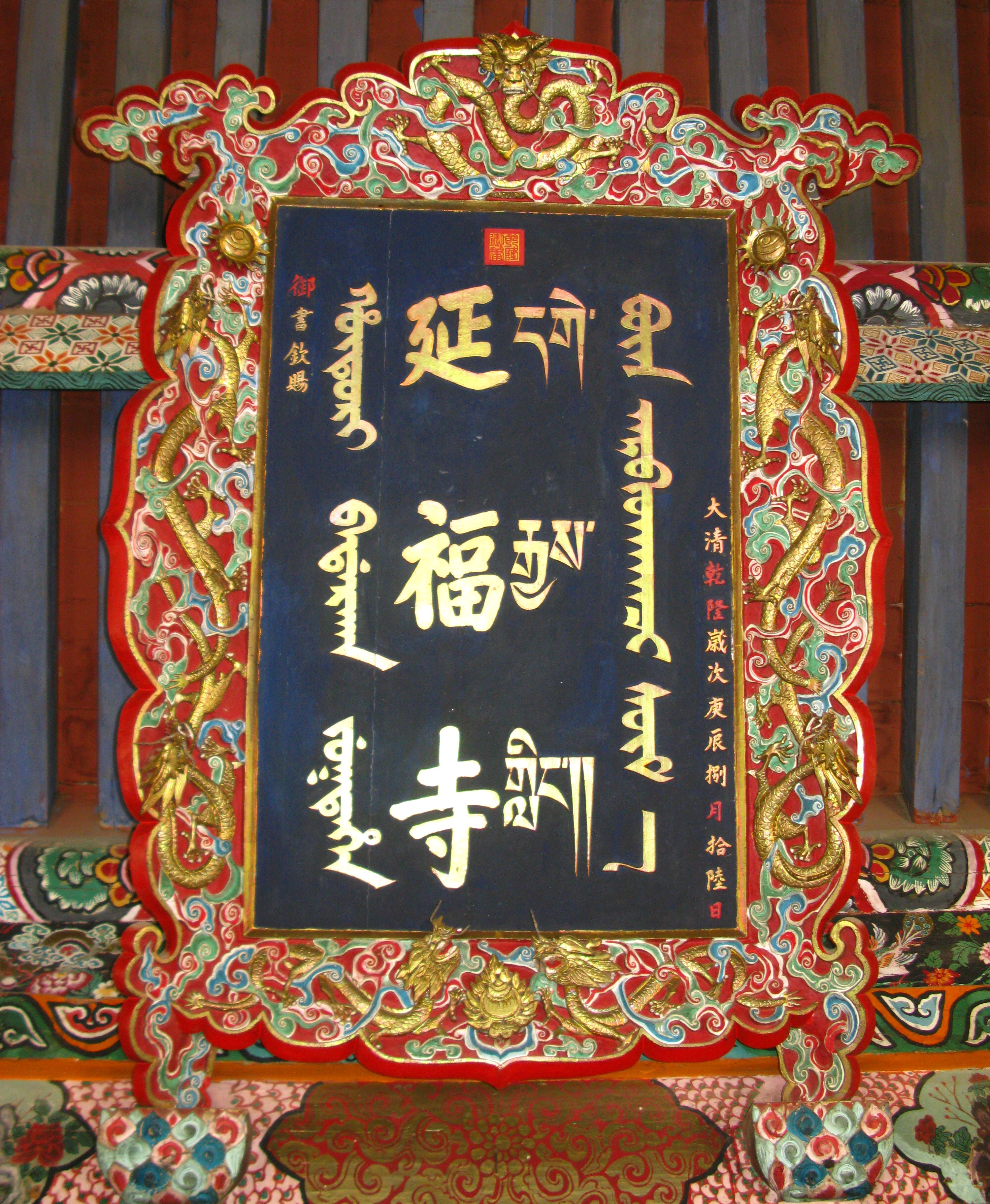 Yanfu Temple, a Tibetan Buddhist temple in Alxa Left Banner, Alxa League, Inner Mongolia, China. The name of the temple written in four languages.